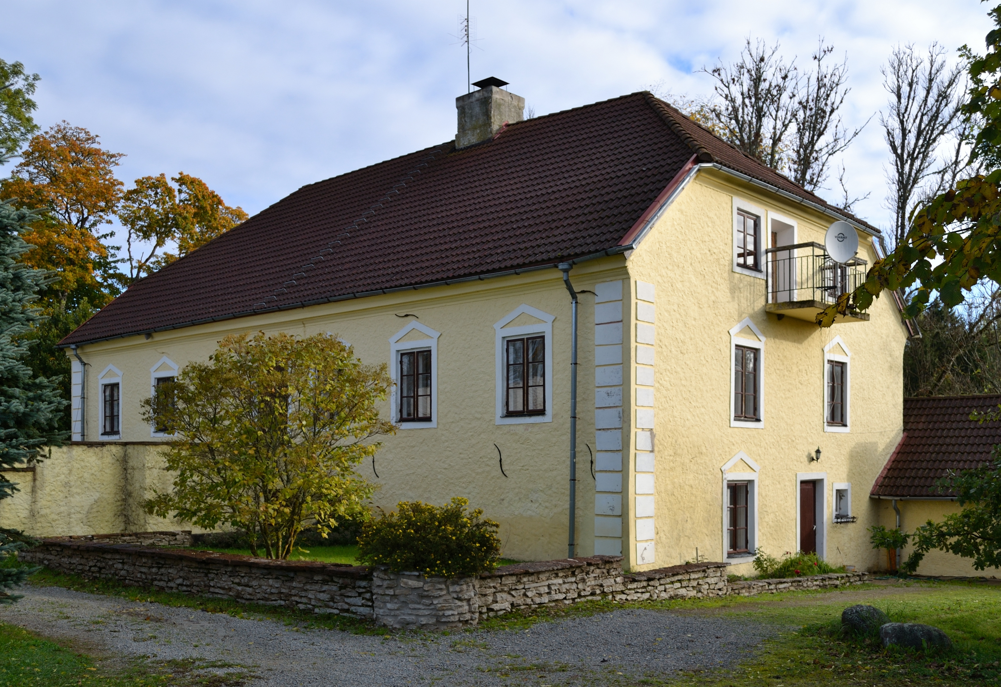 Lohu manor Steward's house This photograph was taken with a Nikon D3100